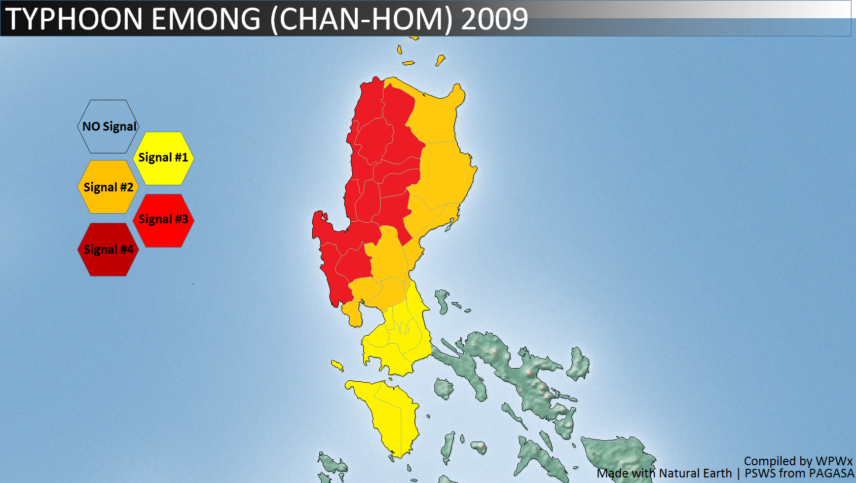 Highest PSWS raised through out the country as Emong passes Northern Luzon